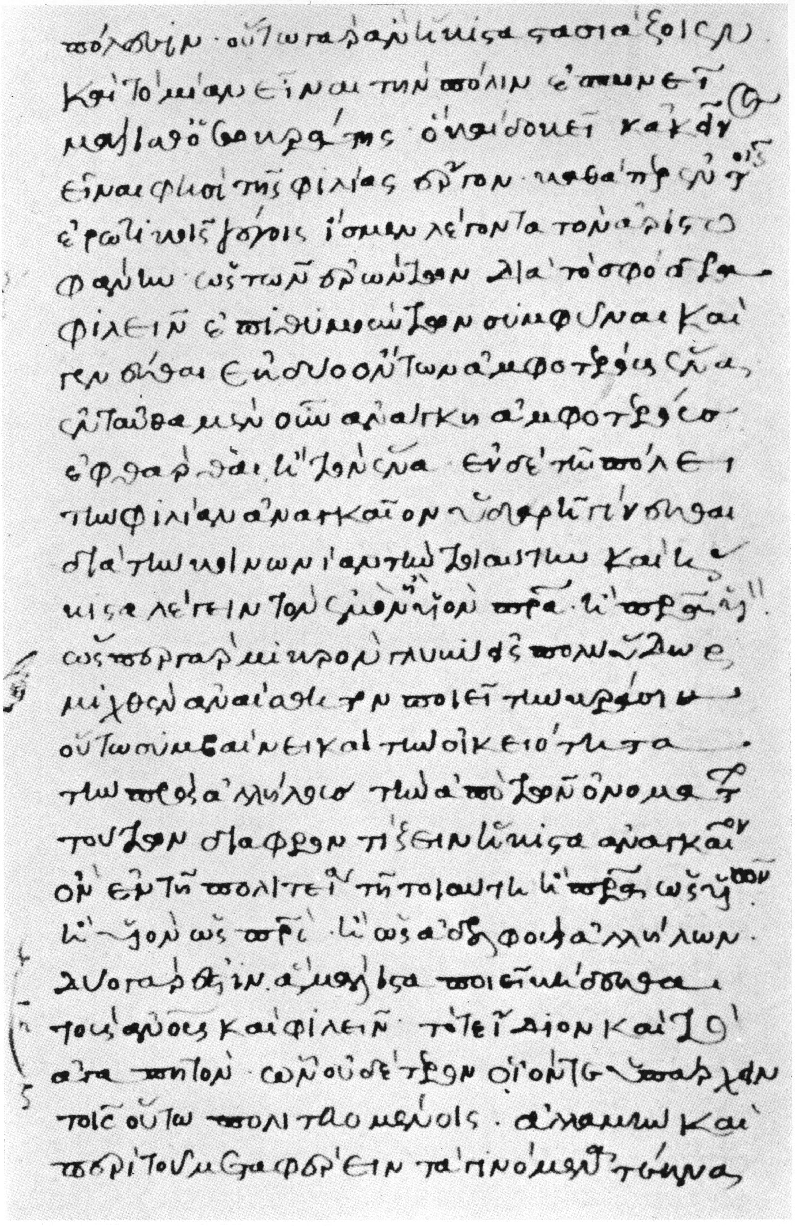 Aristotle, Politics II 4, in a manuscript written by Theodorus Gaza. Udine, Biblioteca Arcivescovile, 258, fol. 24r.